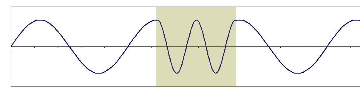 Effect of refractive index upon wavelength